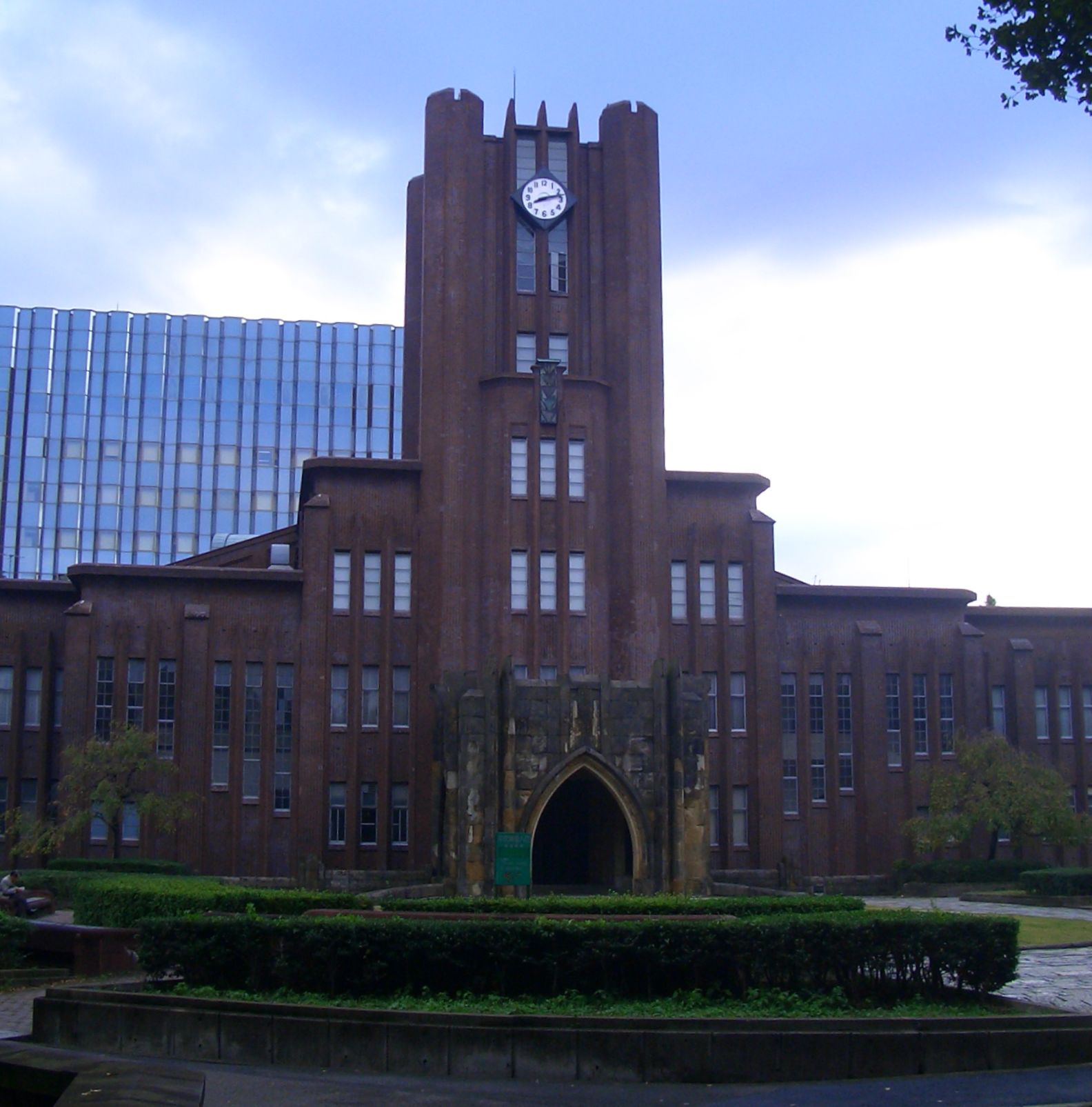 University of Tokyo, Auditorium (Yasuda Auditorium), photographed 8:05 a.m. on 2004-11-16.